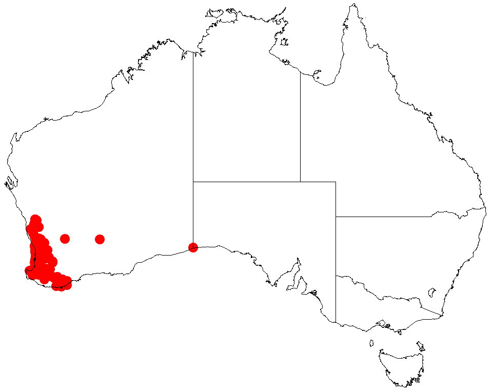 Acacia willdenowiana occurrence data from Australasia Virtual Herbarium downloaded from on 8 December 2018